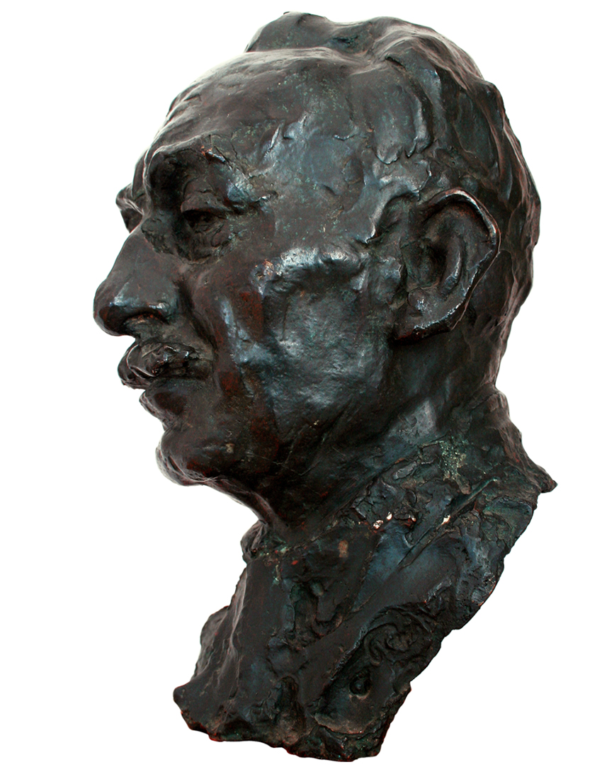 Portrait of Dr. Luko Bela by Aurel Popp (1936)